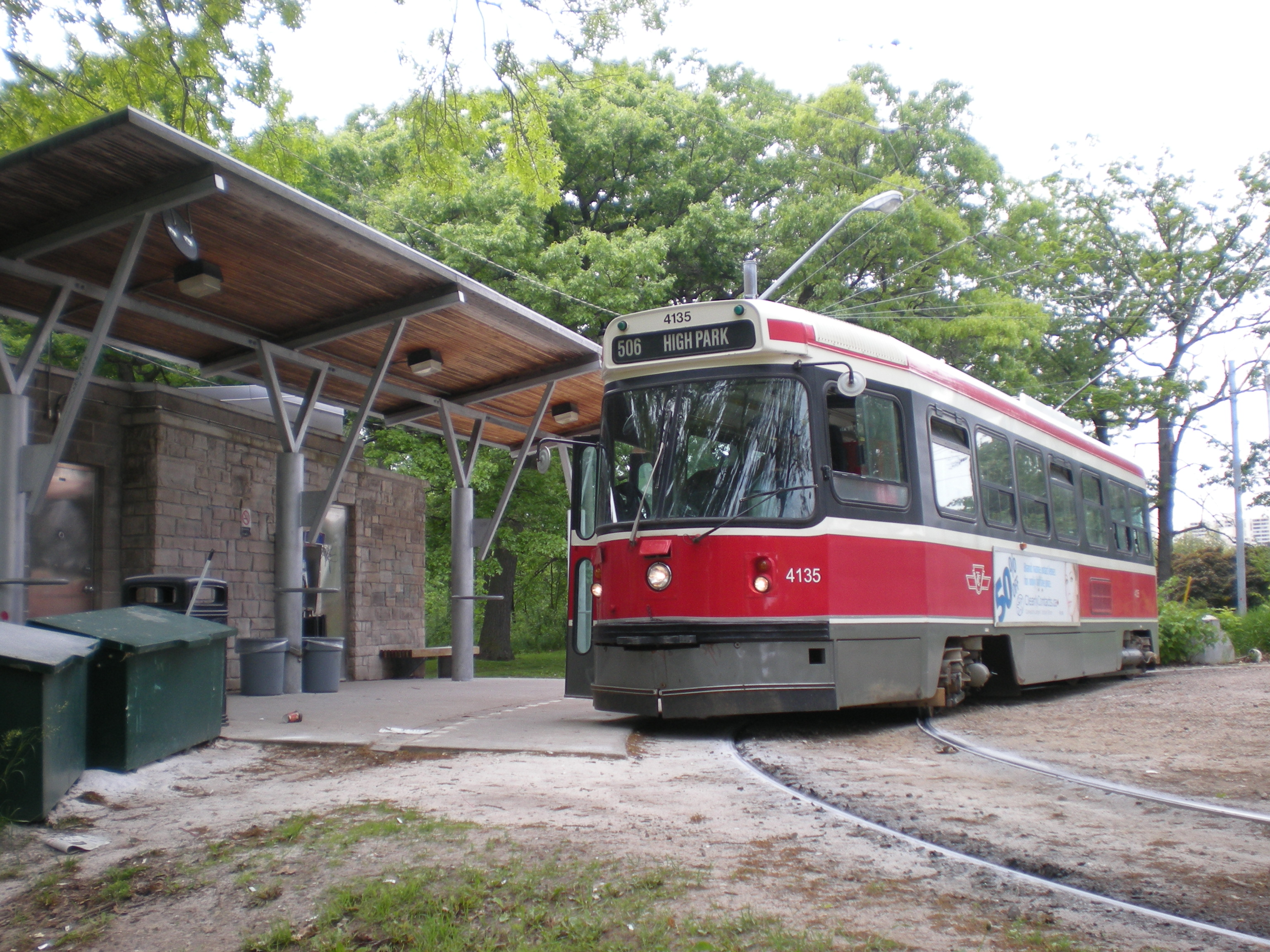 CLRV 4135 turning back at High Park Loop of the Toronto Transit Commission.